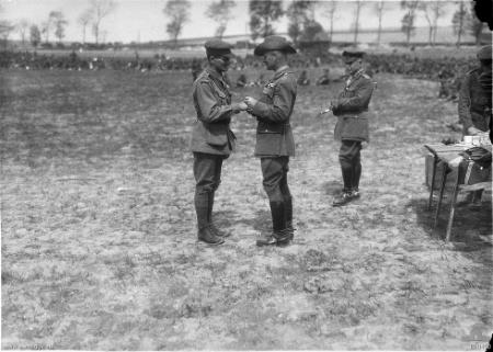 Major Harry Murray VC, DSO, DCM is presented with a bar to his Distinguished Service Order by General Sir William Birdwood.